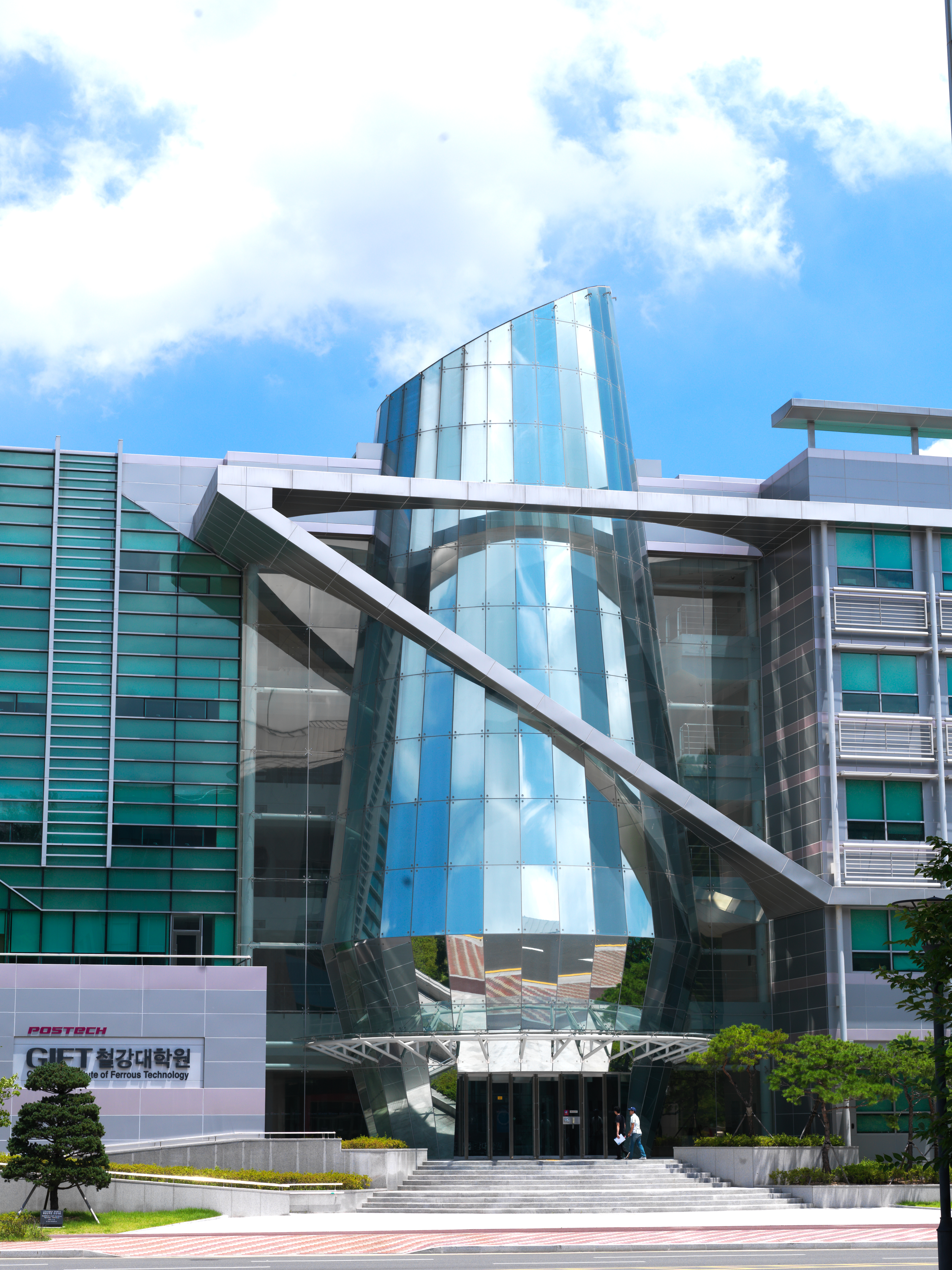 Graduate Institute of Ferrous Technology (GIFT) is the world's only fully accredited institute in the field of steel science and technology